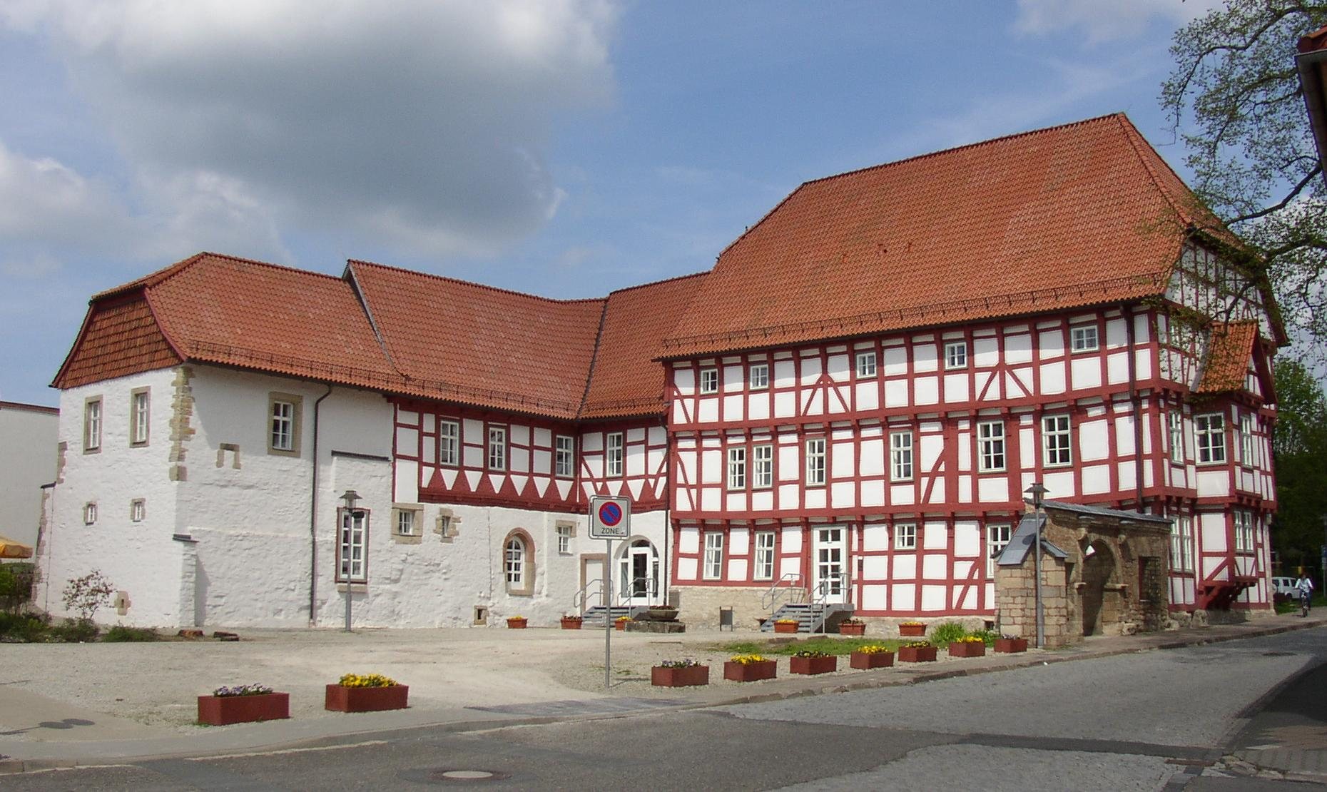 Register office in Worbis in Thuringia, Germany